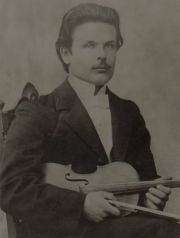 Picture of Toivo Kuula taken in 1903.